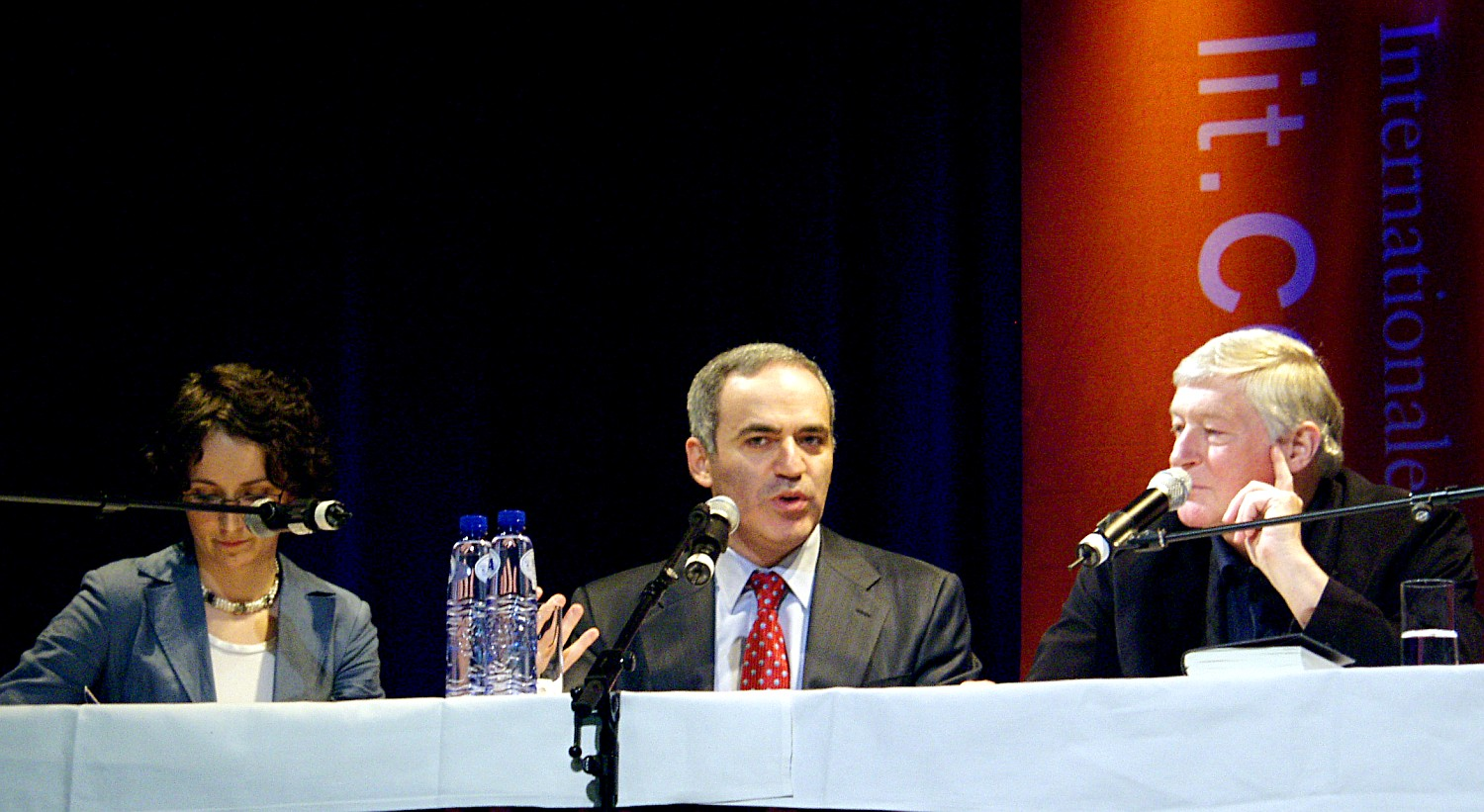 Interpreter Patricia Unflatn note taking during consecutive interpreting, Garry Kasparov and Klaus Bednarz on the lit.Cologne 2007.